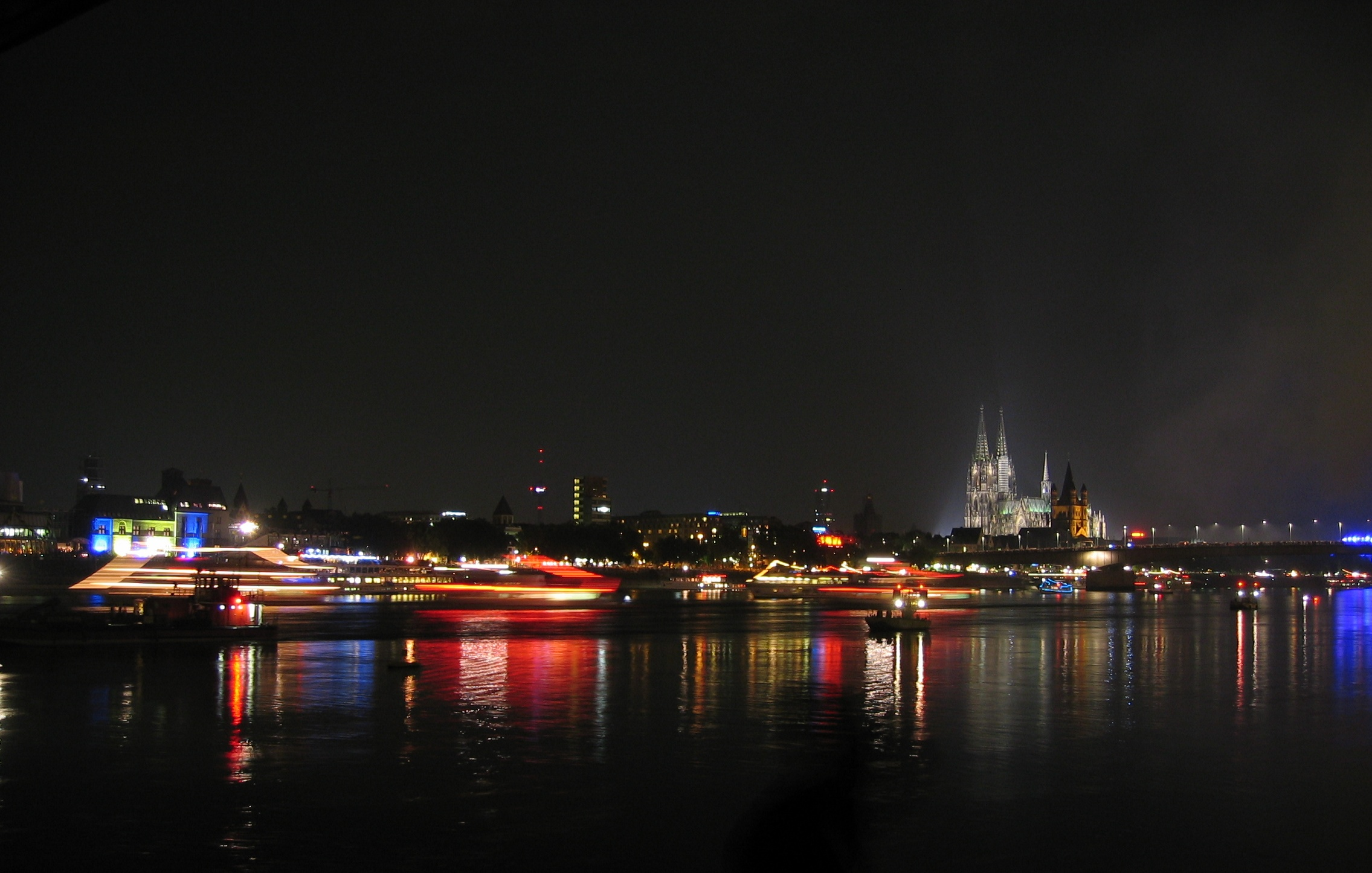 Cologne Cathedral and Old Town with lighted ships